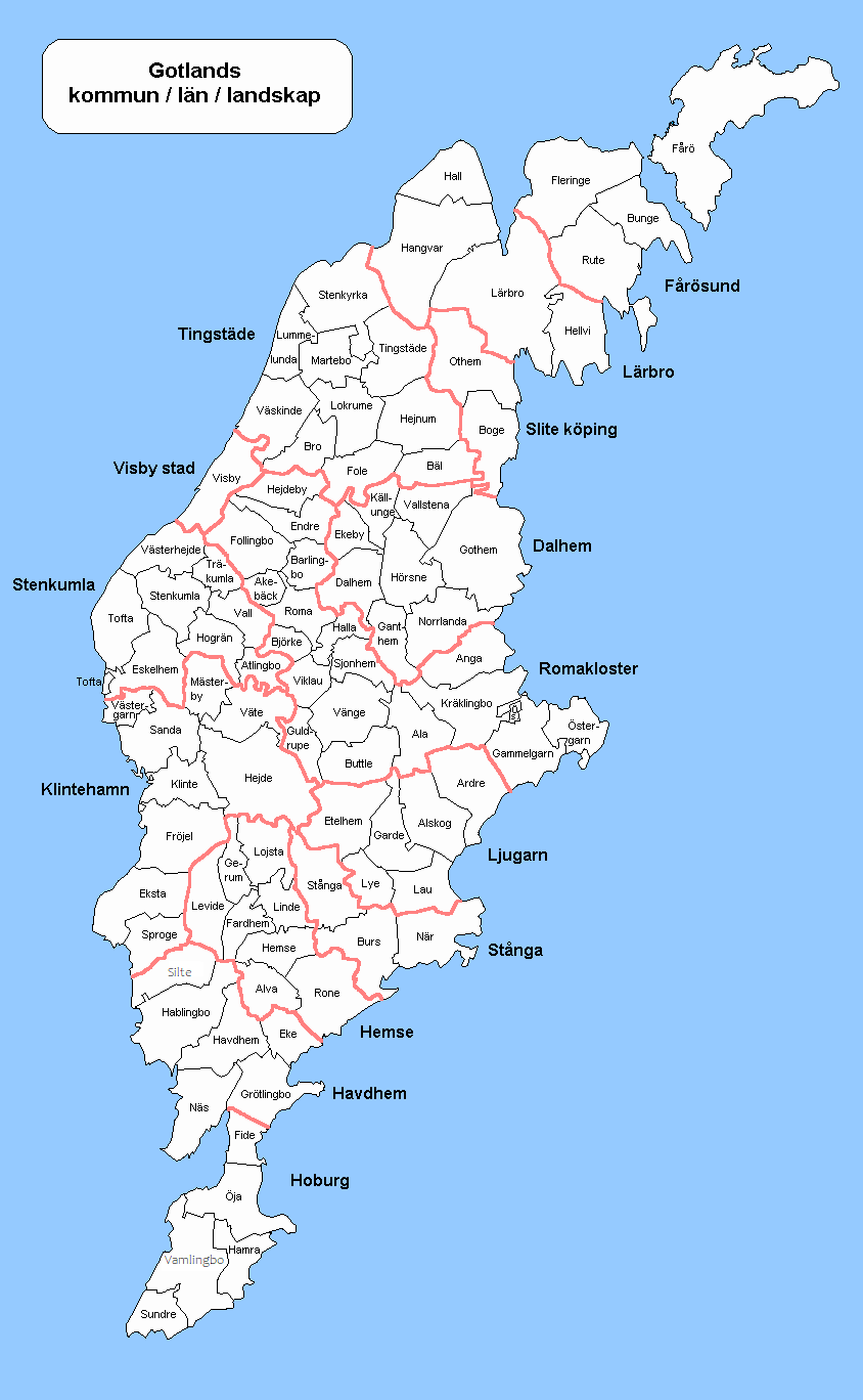 old muncipalities of Gotland